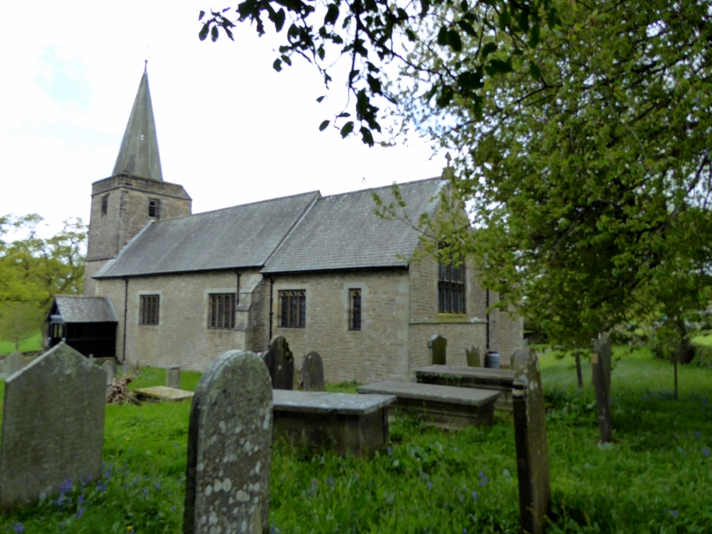 St Peter's parish church, Leck, Lancashire, seen from the southeast